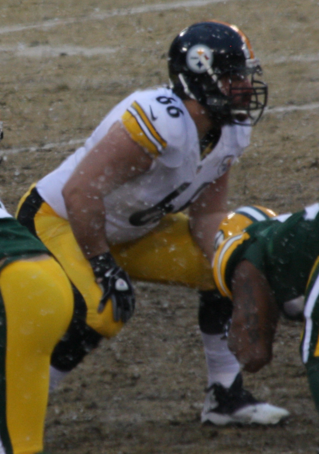 Pittsburgh Steelers offensive lineman David DeCastro prepared for a play to start.